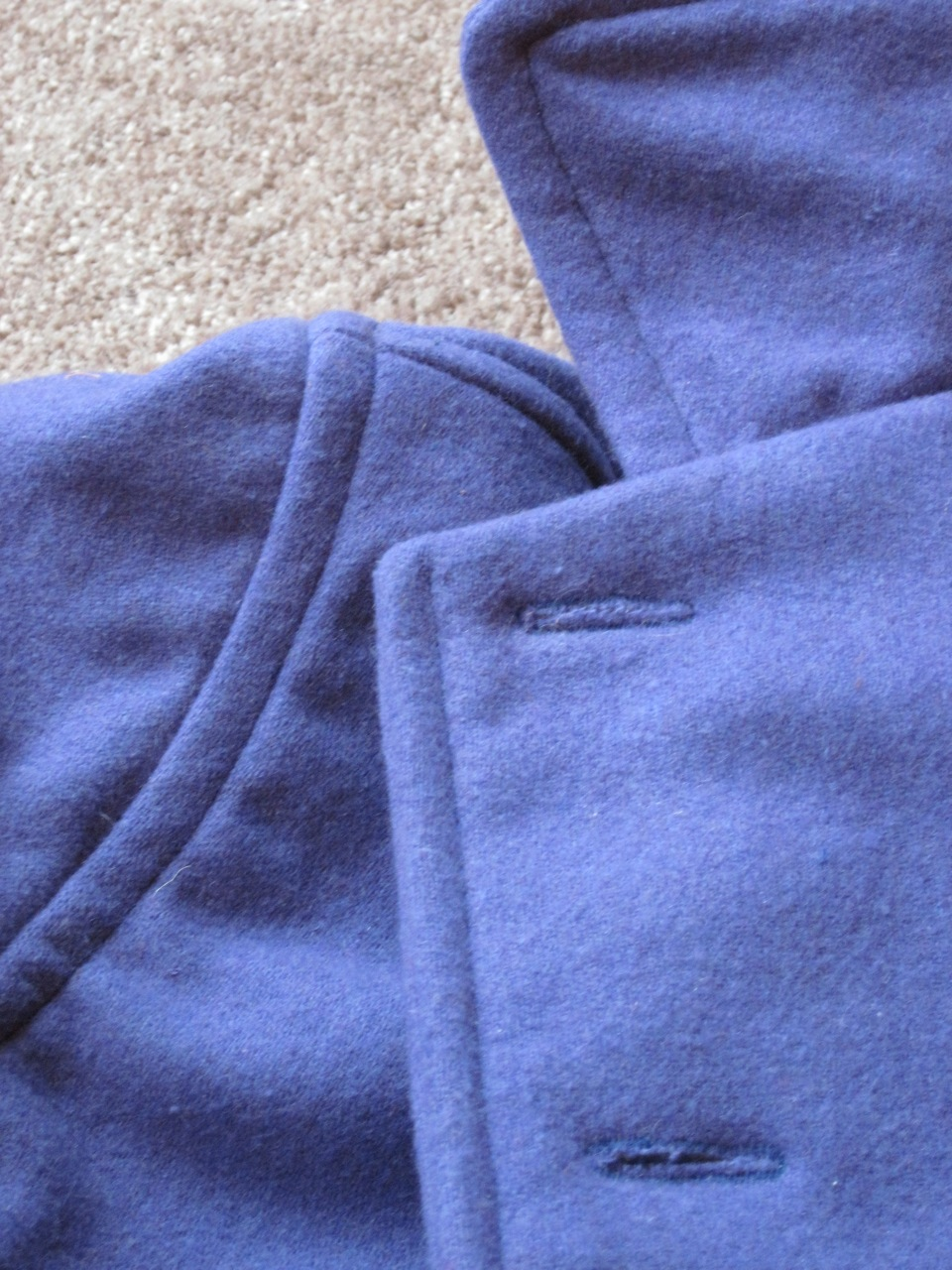 Wool flannel coat.